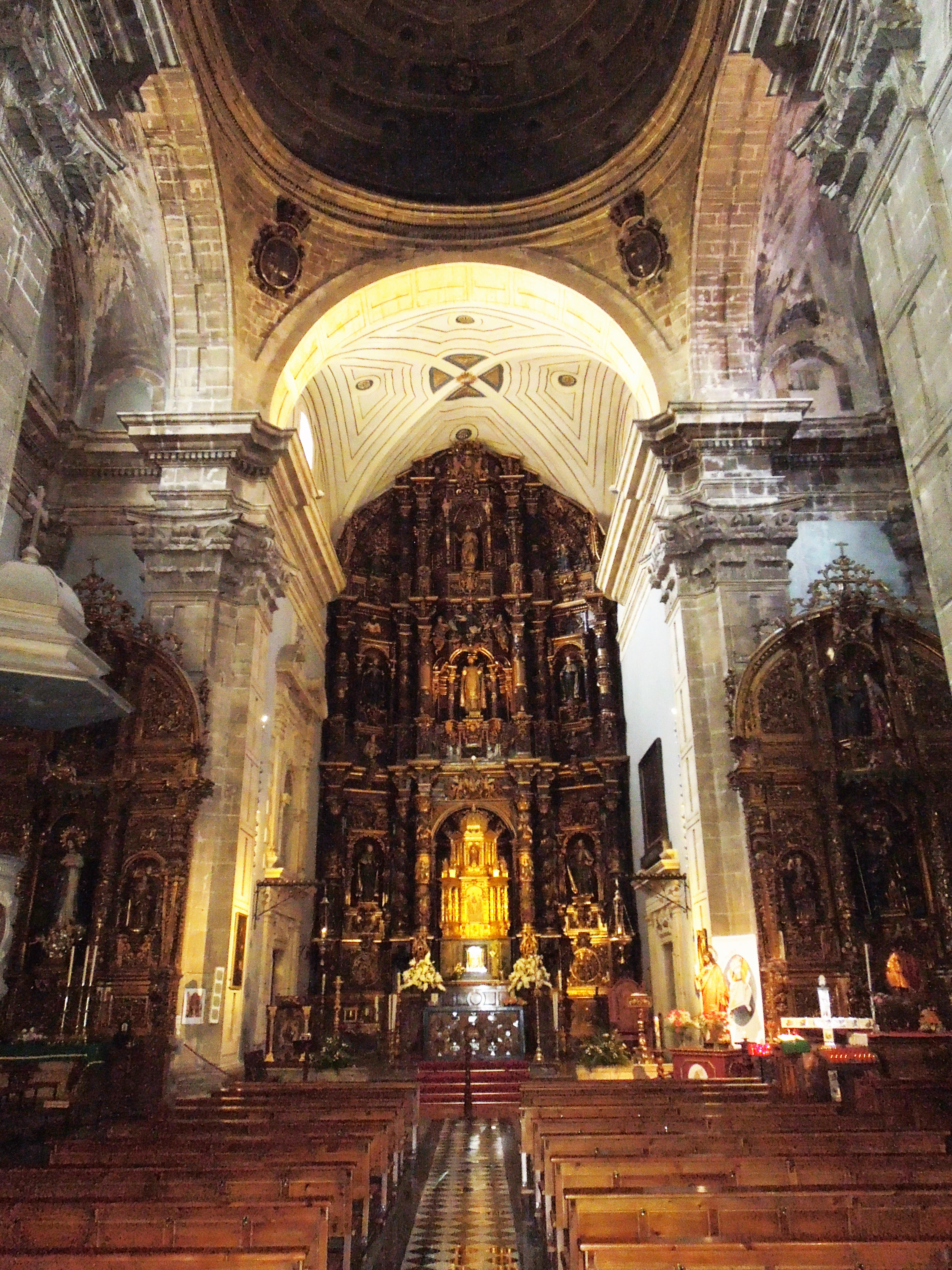 Interior of San Isidoro in Oviedo, Spain